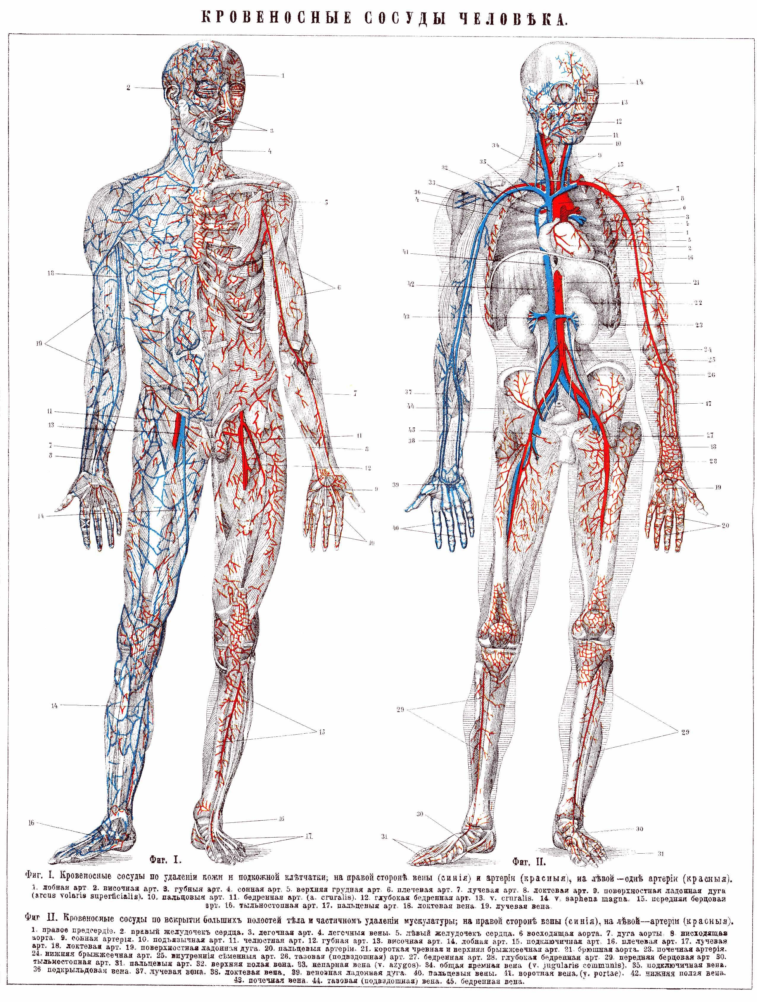 Illustration from Brockhaus and Efron Encyclopedic Dictionary (1890—1907)